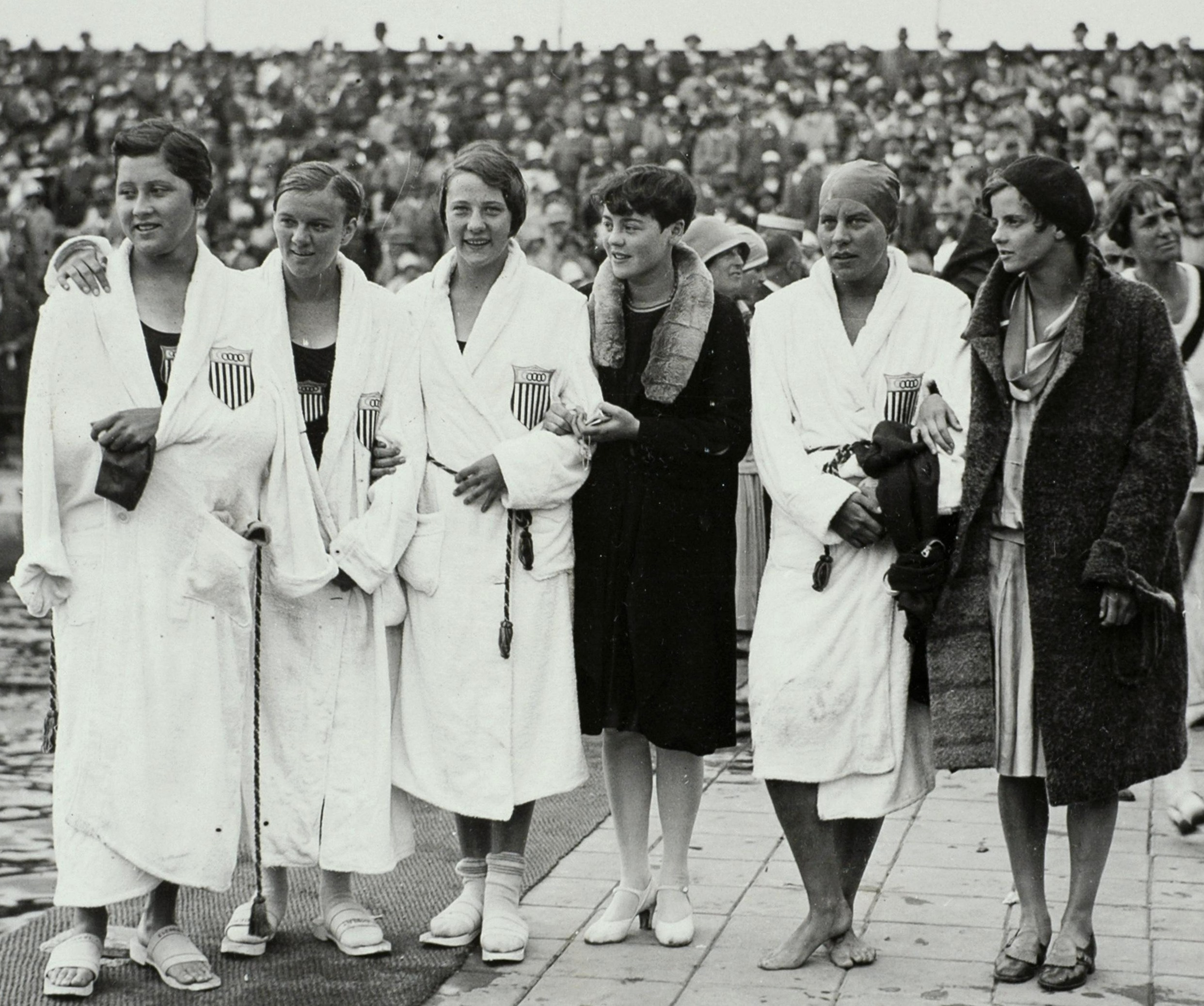 The american team for the 4 x 100 m freestyle, which won gold, at the 1928 Olympic Games in Amsterdam. From left: Eleanor Garatti, Adelaide Lambert, Albina Osipowich, Susan Laird, Martha Norelius and Josephine McKim.